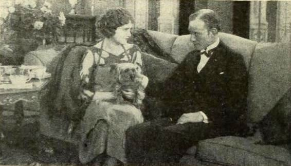 Still from the American drama film The Ordeal (1922) with Agnes Ayres and Conrad Nagel, on page 62 of the August 1922 Photoplay.